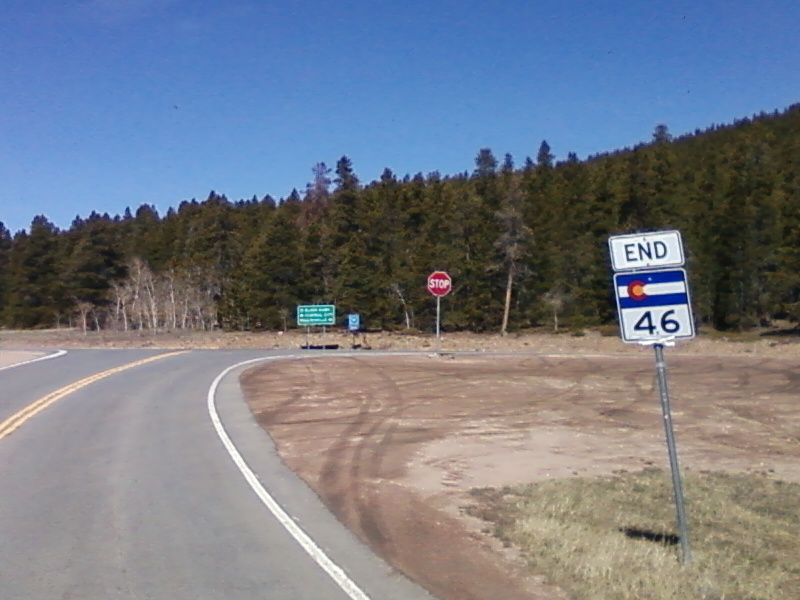 Road sign signifying the end of C-46 at C-119 in Gilpin County, Colorado.